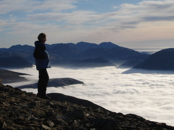 Temperature inversion in the Lake District, from the top of Grasmoor.